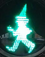 Pedestrian green traffic light exclusively used in Augsburg, Germany, on a traffic light near the Puppenkiste, a famous puppet theater, depicting "Kasperle", a locally famous puppet.